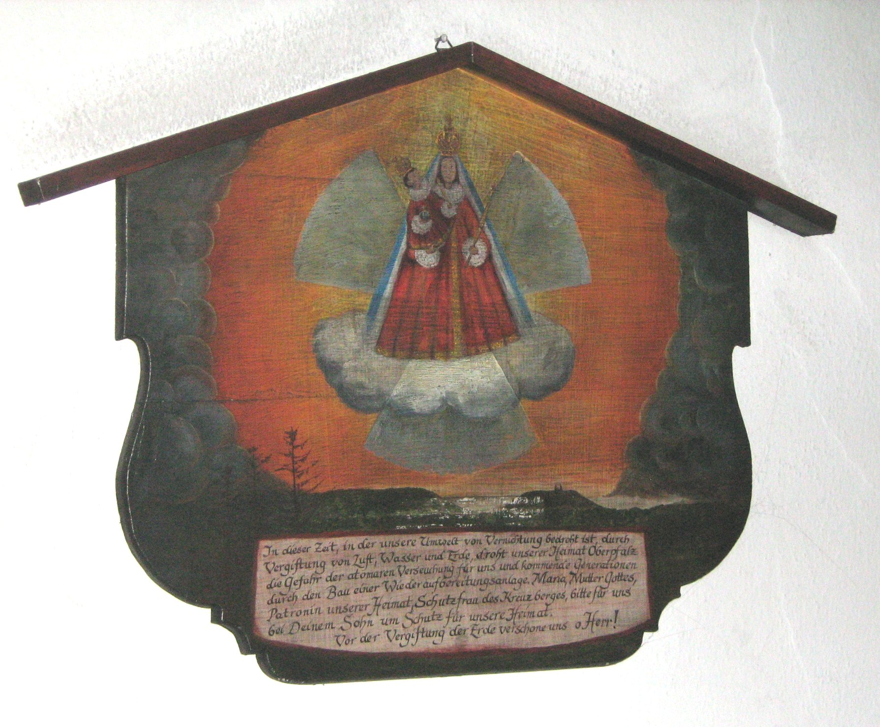 Anti nuclear reprocessing plant Wackersdorf ex-voto in the Church of Our Lady of Kreuzberg in Schwandorf. Ex-voto inscription: In this time when our environment is under threat of destruction by poisoning of air, water and earth, threatens our homeland Oberpfalz the threat of nuclear contamination for present and future generations by building a reprocessing plant. Mary, Mother of God, Patroness of our homeland, Protectress of Kreuzberg, pray for us with your Son to protect our homeland. Prior to the poisoning of the earth and spare O Lord!